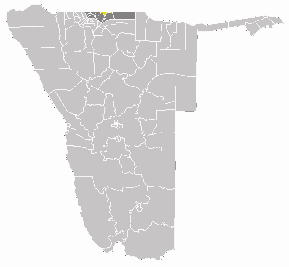 map of the Omundaungilo constituency within the Ohangwena region, Namibia